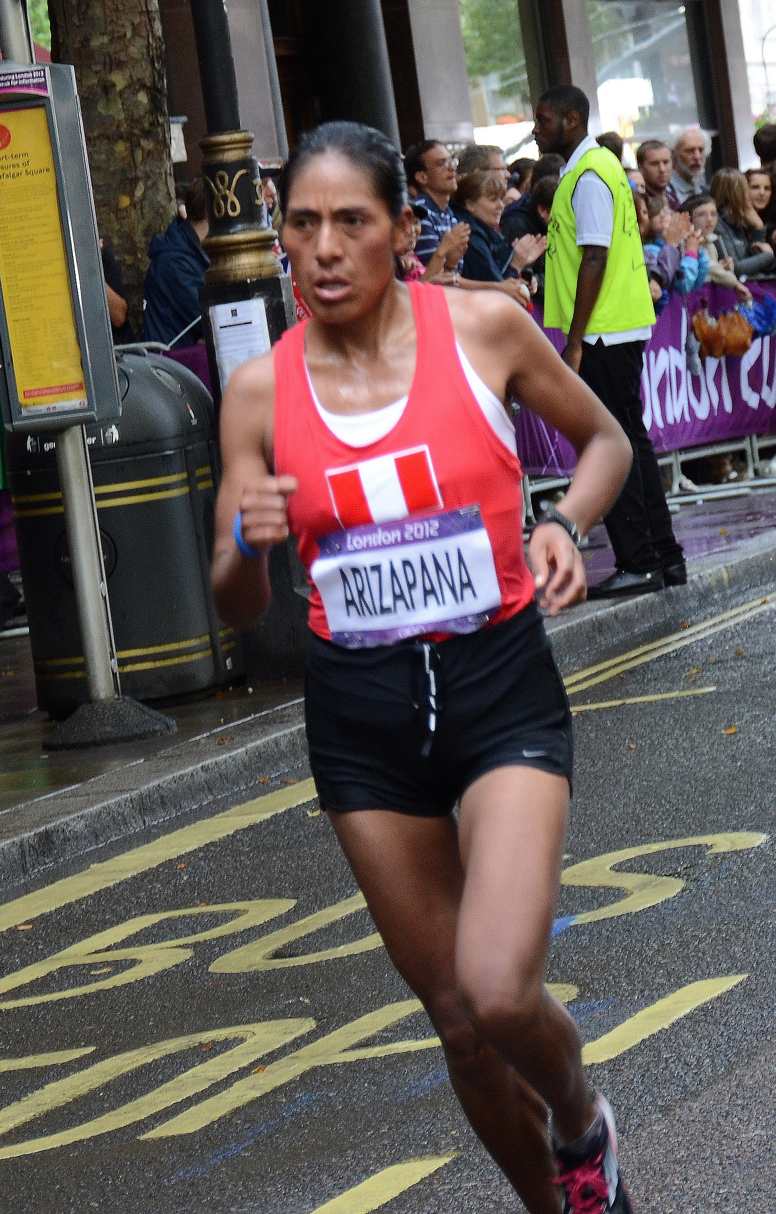 Wilma Arizapana (Peru) in the marathon (w) at the Olympic Games 2012